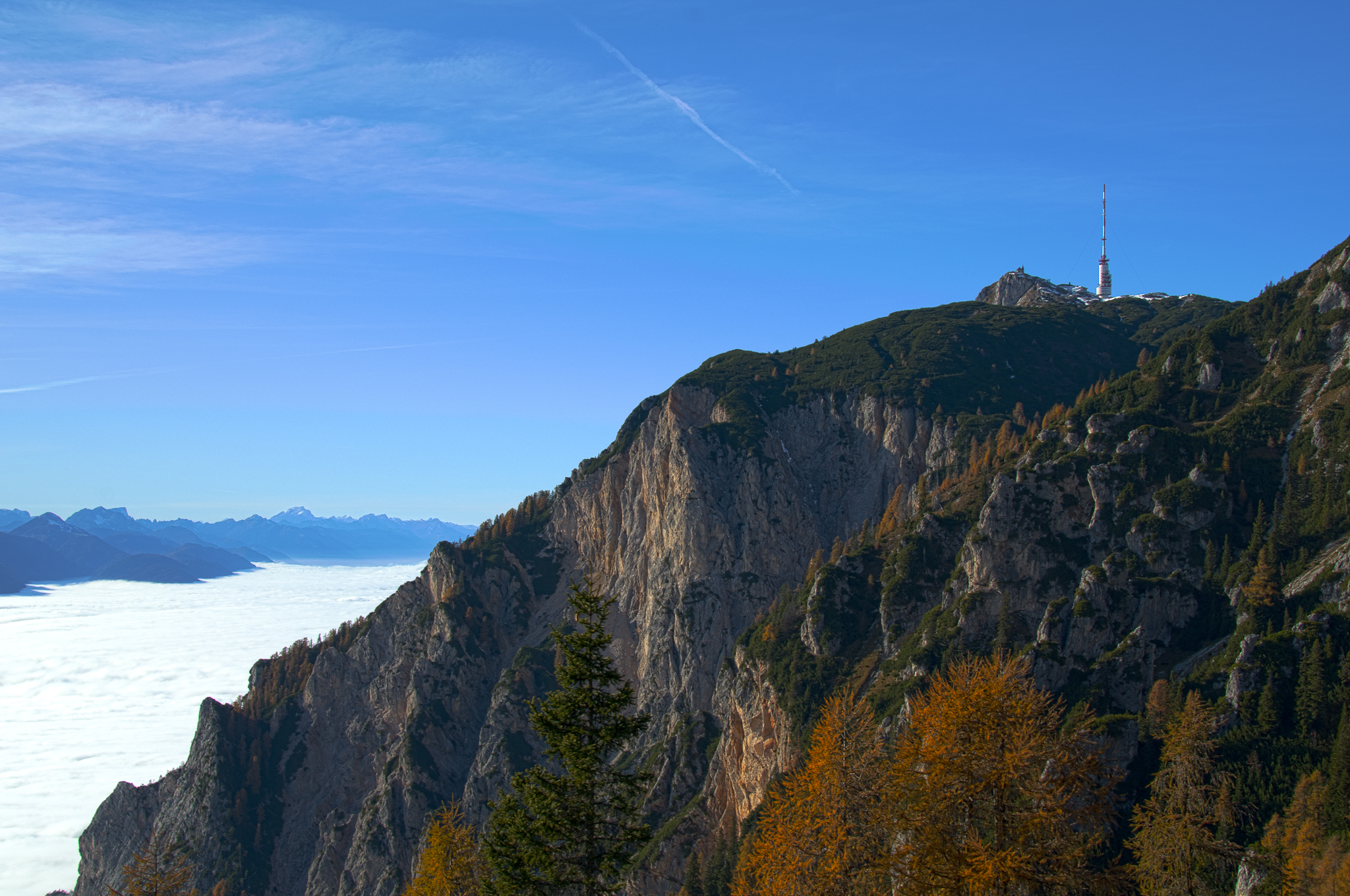 Dobratsch in autumn